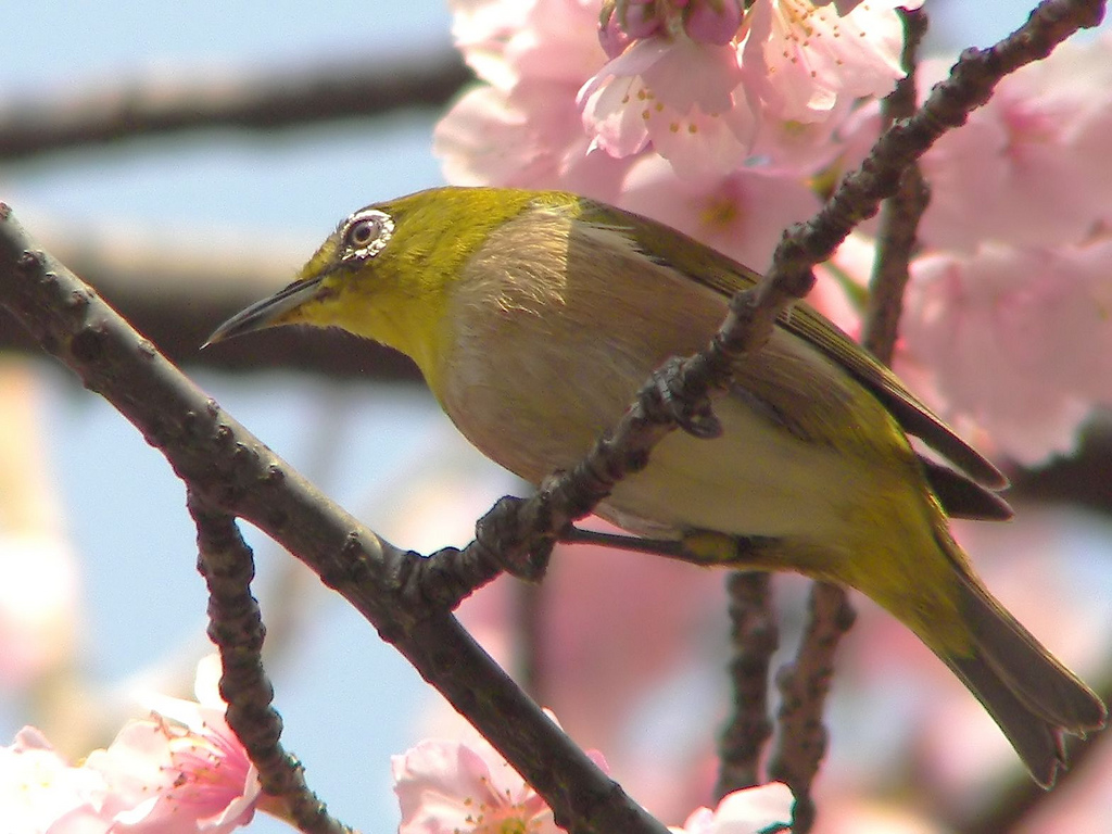 Chestnut-flanked White-eye, Zosterops erythropleurus Original description: Saw at a park of Japan.